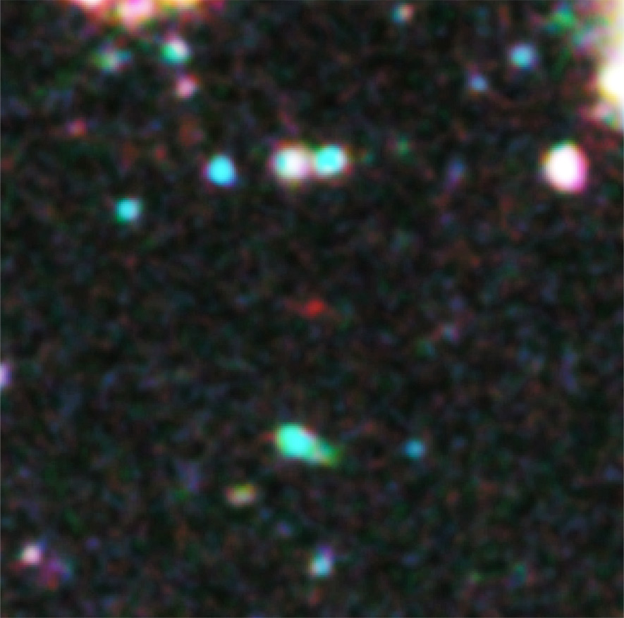 Hubble Space Telescope image of galaxy UDFj-39546284. It is located in the constellation Fornax at coordinates 03 32 39.54 -27 46 28.4